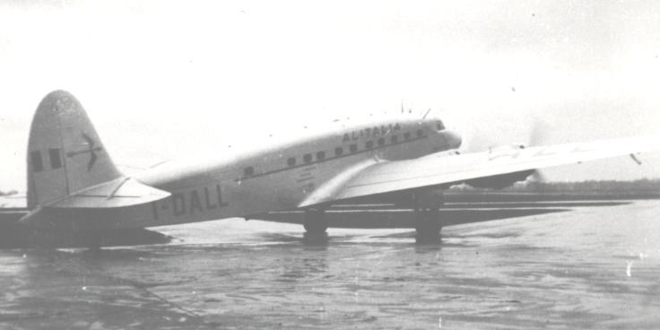 Savoia-Marchetti SM.95 I-DALL of Alitalia on schedule at Manchester